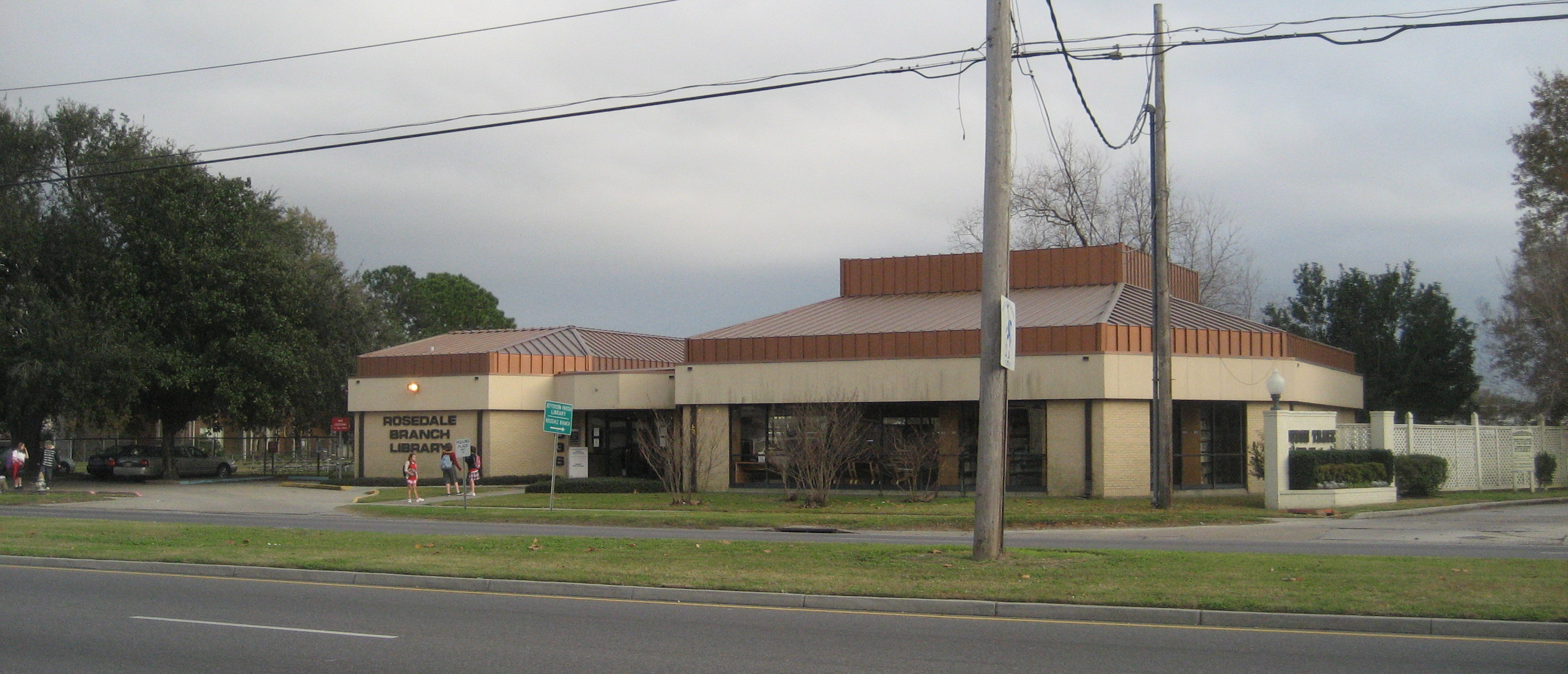 Rosedale Branch Library on Jefferson Highway, Jefferson, Louisiana